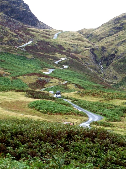 Hardknott Pass from Hardknott Castle (Roman Fort) The famous Hardknott Pass is seen here twisting down the hillside with some bends having a gradient of 1 in 3 (33%) making it officially the steepest road in Britain - though I've driven a few close contenders especially around Exmoor.